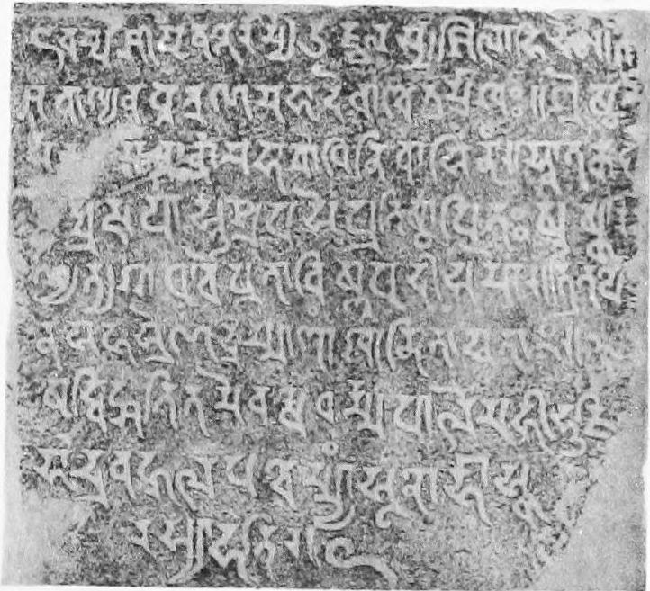 Mahabodhi Stone Inscription of Pala emperor Dharmapala (ninth century)